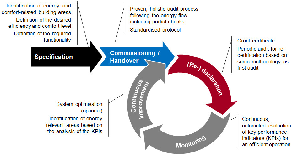 Principle scheme of the eu.bac System Audit for Energy Performance Audit for Builing Automation Systems